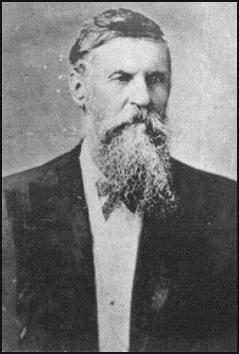 photo of William Steele (1819-1885)